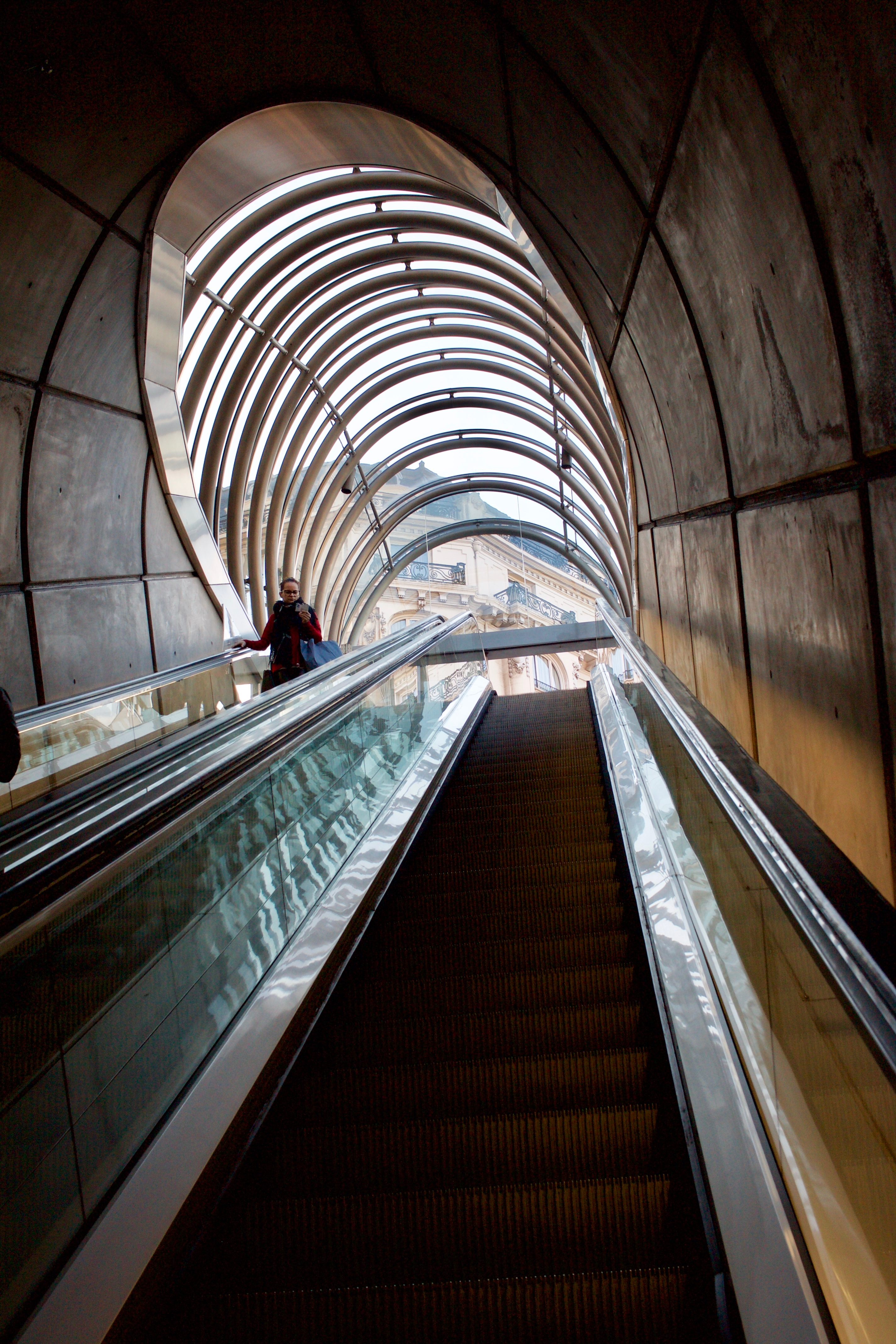 Metro, Bilbao, by Norman Foster